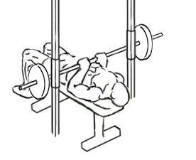 an exercise of triceps